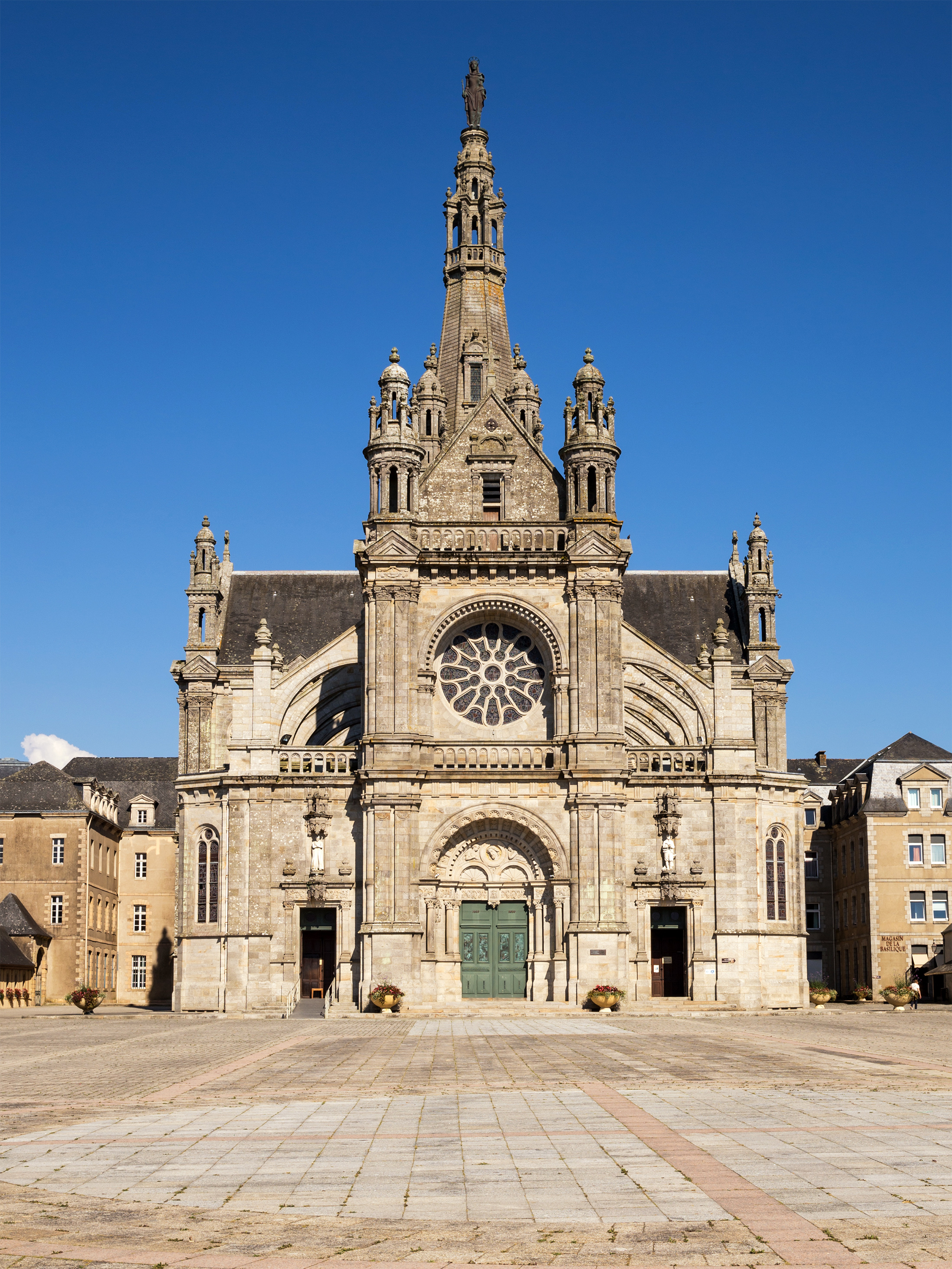 Sainte-Anne-d'Auray (Brittany), Basilica